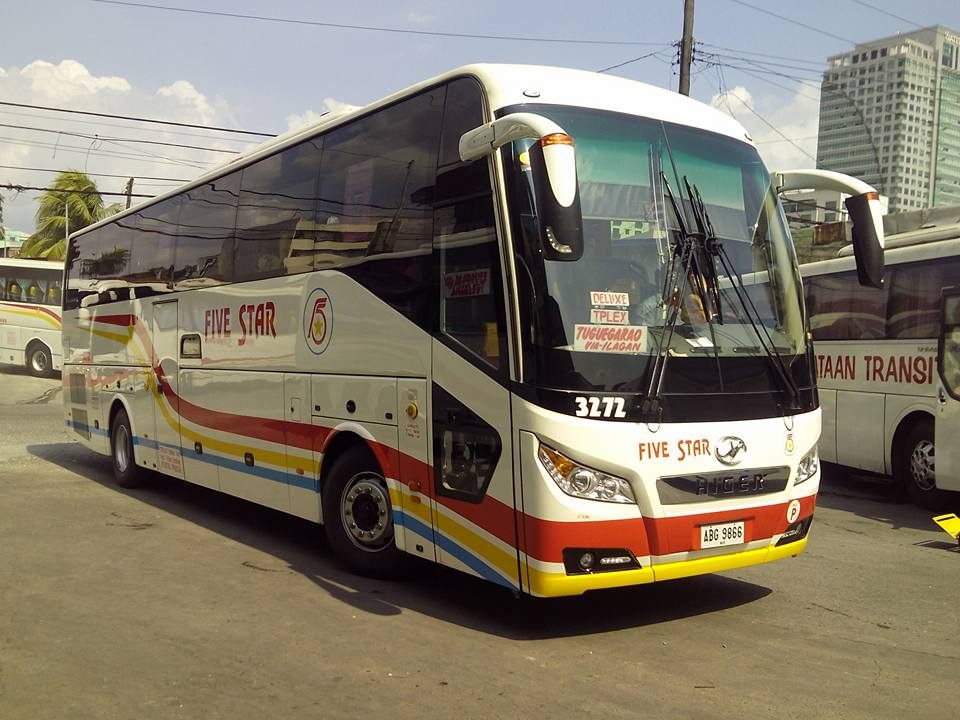 This was taken in Five star bus cubao terminal.